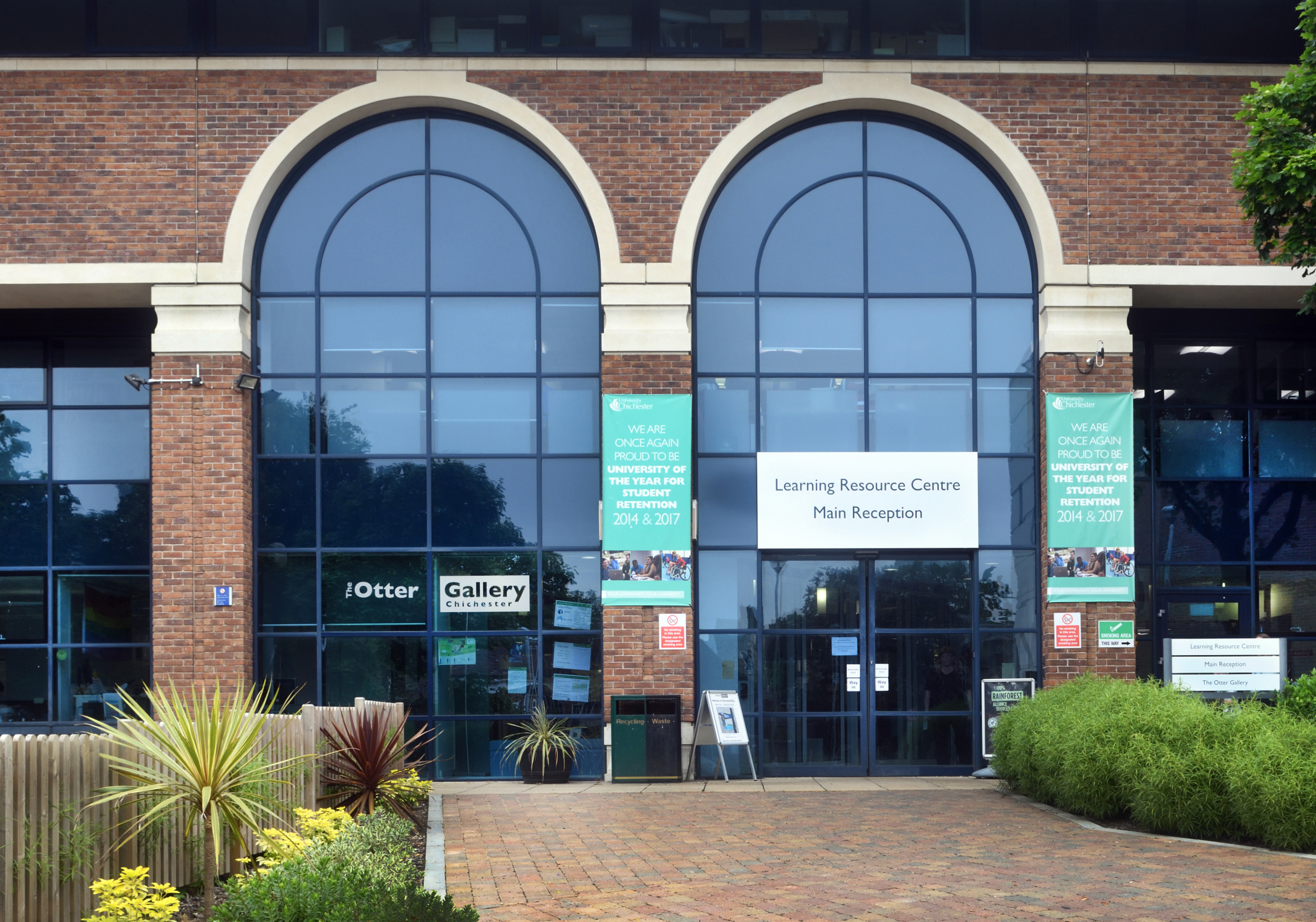 Entrance to the Otter Gallery in the Learning and Resource Centre of the University of Chichester, West Sussex, UK, in June 2018.